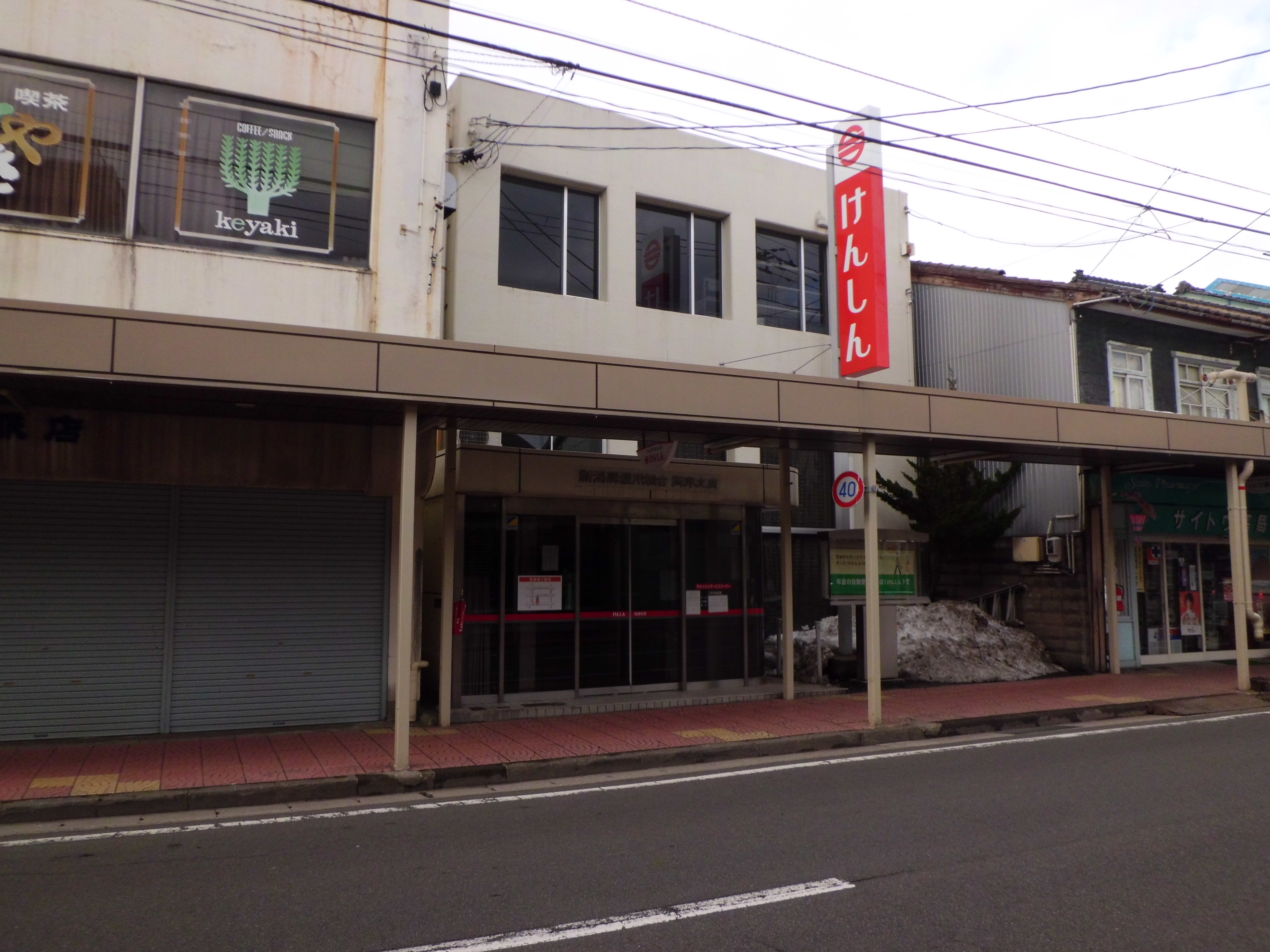 Niigataken Credit Union ; Ryotsu office (former head office of Ryotsu Credit Union)